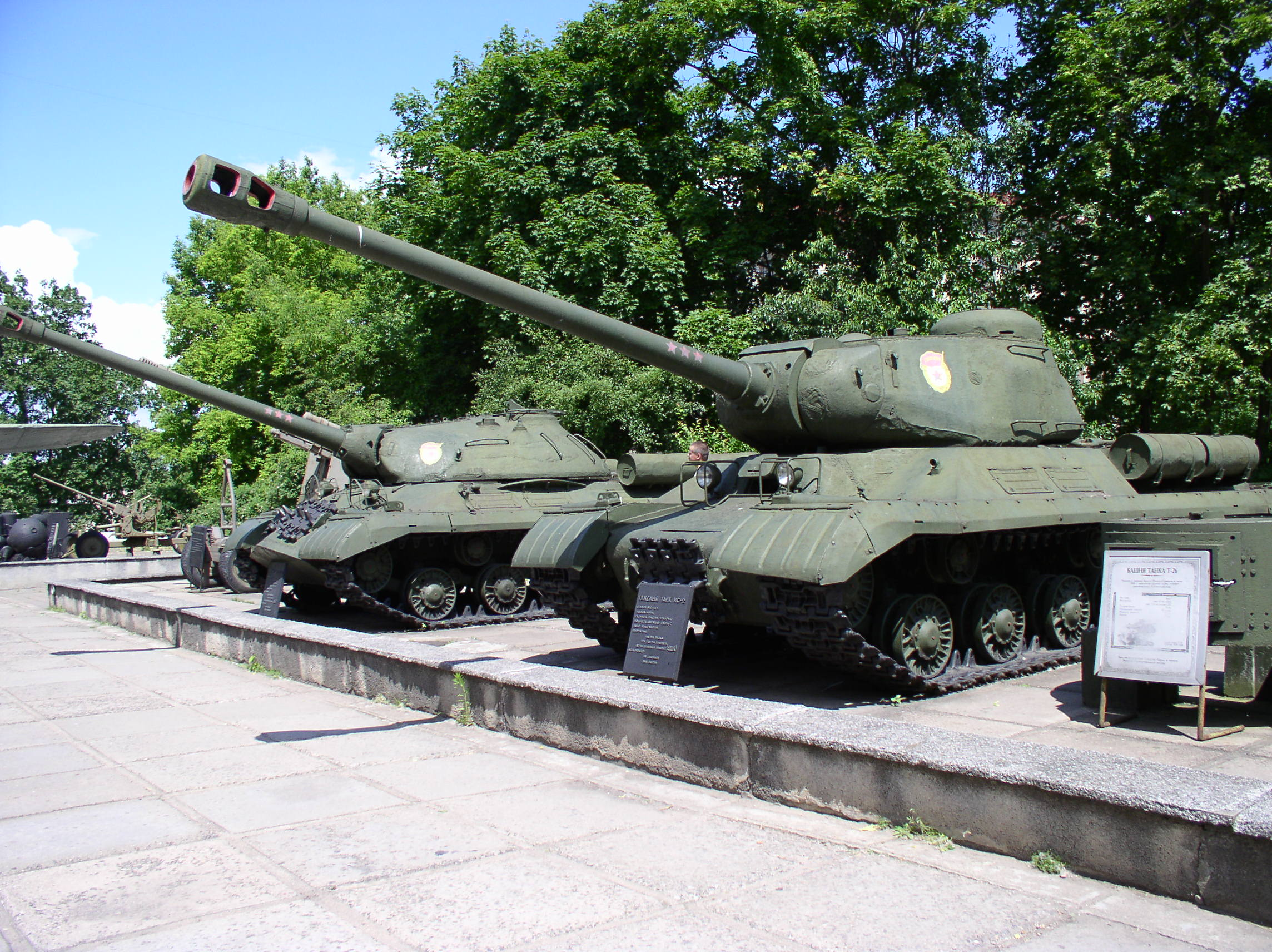 Museum of Great Patriotic War's Exhibition, Minsk, Belarus.